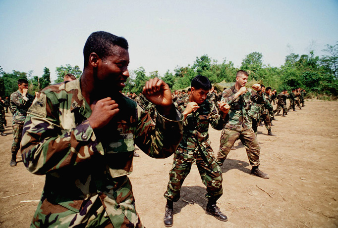 U.S. Army Sgt. Jerry D. White (left), Royal Thai Master Sgt. Satit Sitparsert (center) and U.S. Army Spc. James M. Lupo hold their fighting stance during hand-to-hand combat training as part of Exercise Cobra Gold '97 in Tak, Thailand, on May 15, 1997. Cobra Gold '97 is the latest in a continuing series of U.S. /Thai military exercises designed to ensure regional peace and strengthen the ability of the Royal Thai Armed Forces to defend Thailand. The training will include joint combined air, land and sea operations. Cobra Gold is the largest strategic mobility exercise involving the U.S. Pacific Command forces this year. White and Lupo are attached to Alpha Company, 1st Battalion, 27th Infantry. Sitparsert is attached to the Thai 3rd Regiment, 17th Infantry.